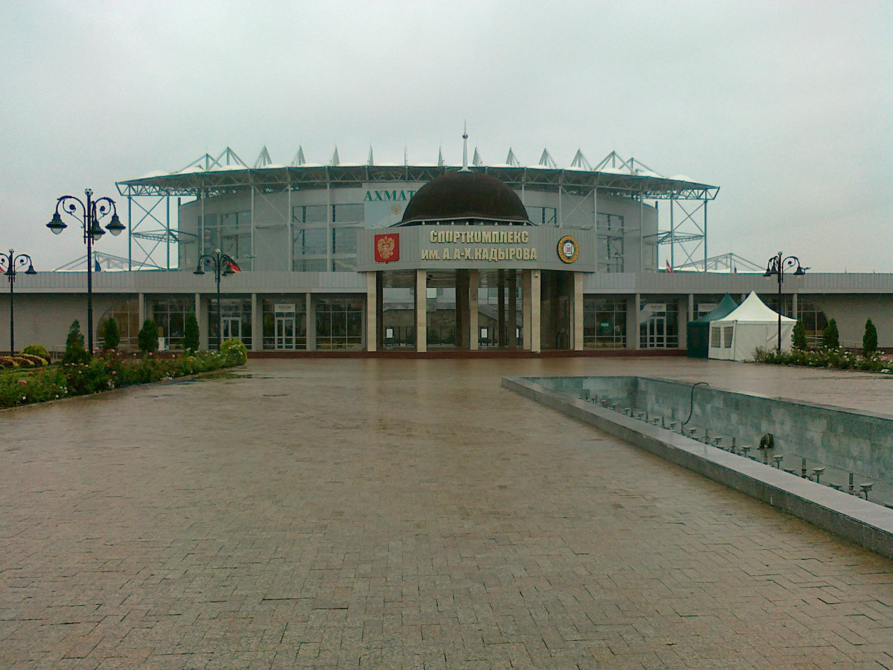 Нохчийн: Нохчийчоь This work is free and may be used by anyone for any purpose. If you wish to use this content, you do not need to request permission as long as you follow any licensing requirements mentioned on this page.